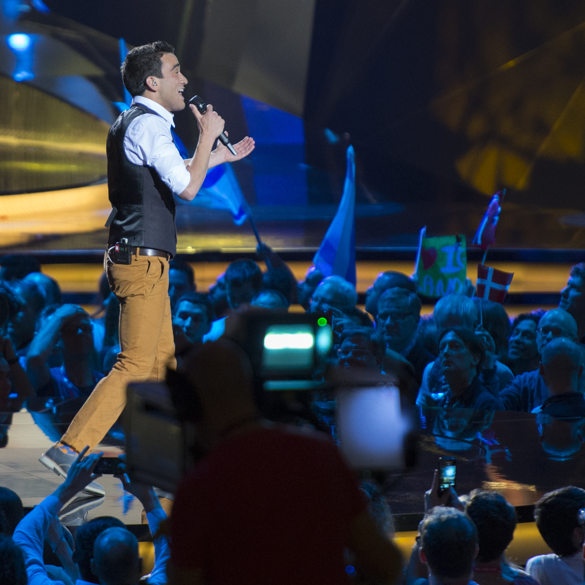 Gianluca representing Malta with the song "Tomorrow" during the second dress rehearsal of the second semi final of the Eurovision Song Contest 2013 in Malmö. (Help translate this text)